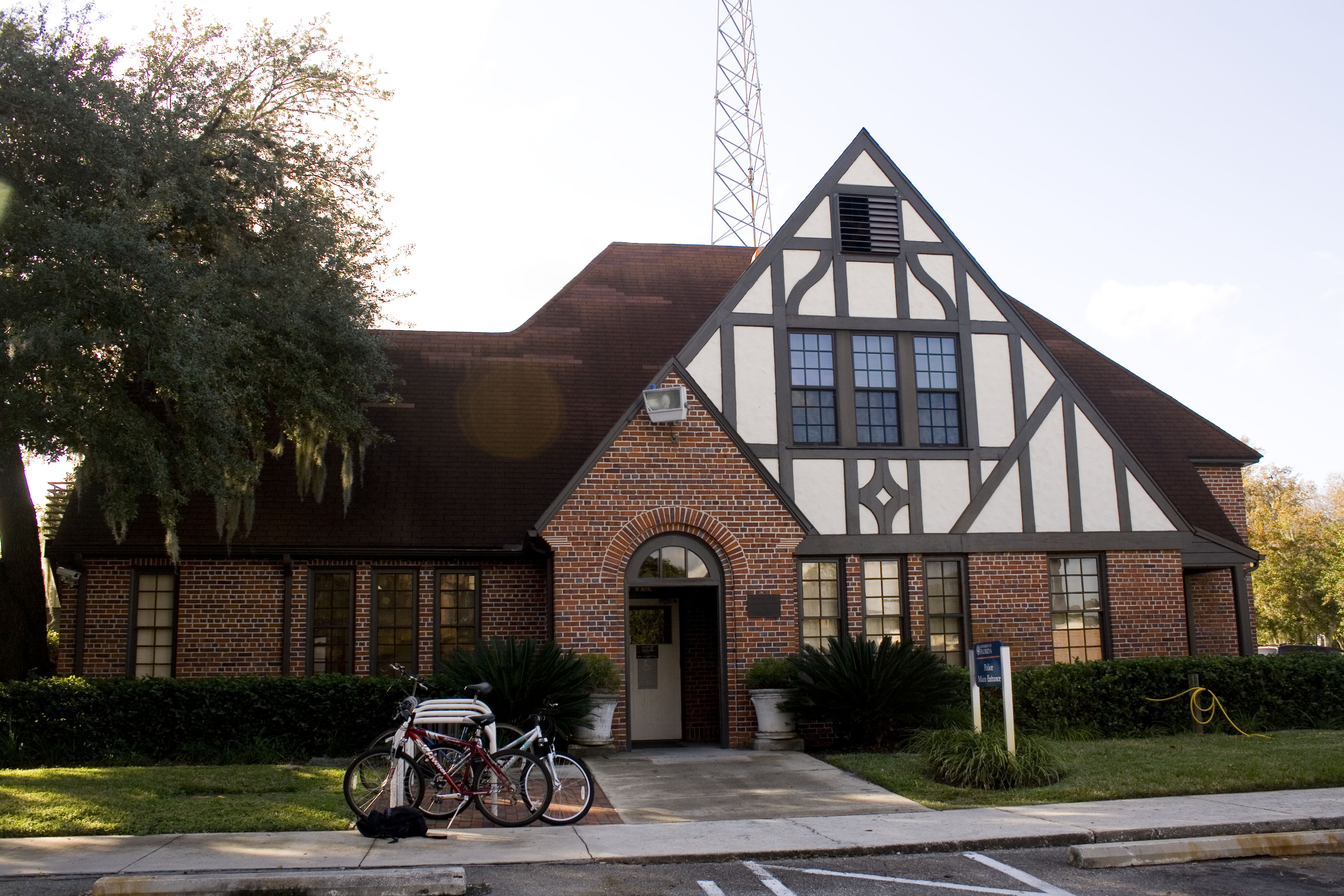 Taken by me on 6 January 2007. --Douglas Whitaker 23:05, 6 January 2007 (UTC)